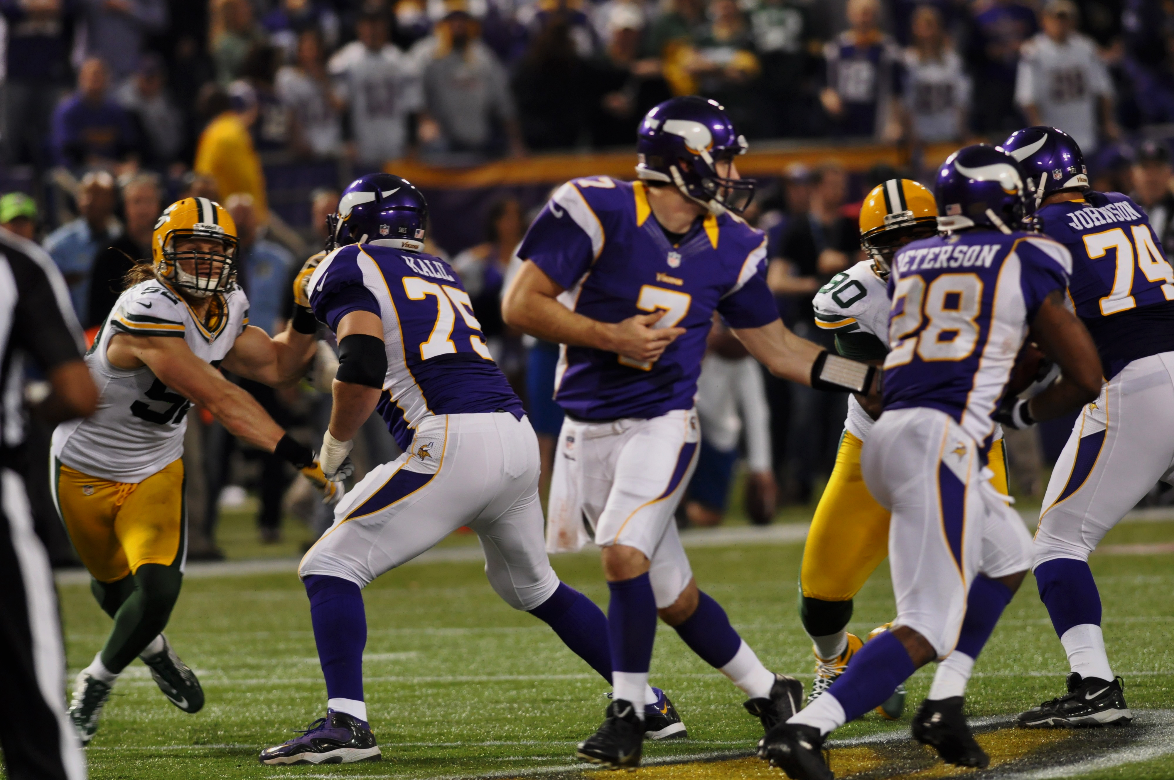 A Packers @ Vikings 2012's snap